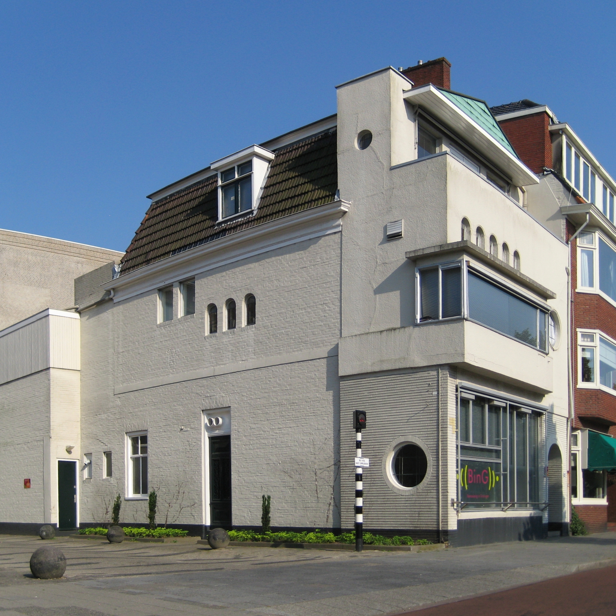 House (1938-1939) in the Dutch city of Groningen.